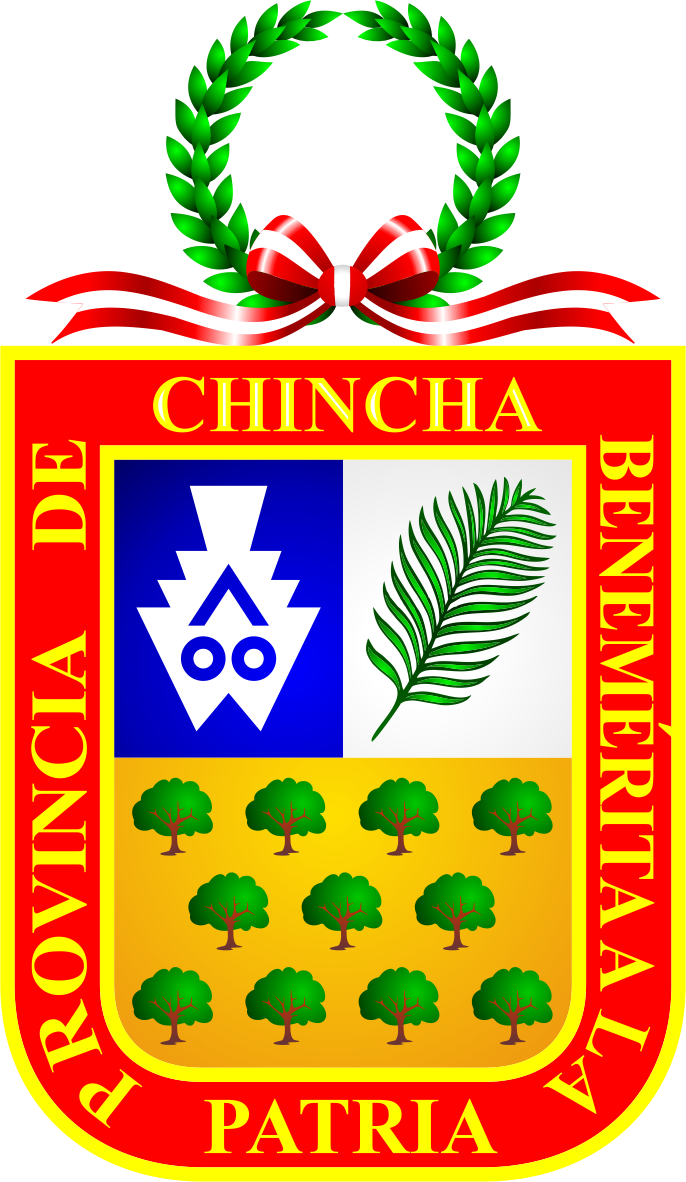 High Chincha District - Province of Chincha - Pisco Region